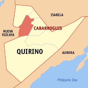 Map of Quirino showing the location of Cabarroguis